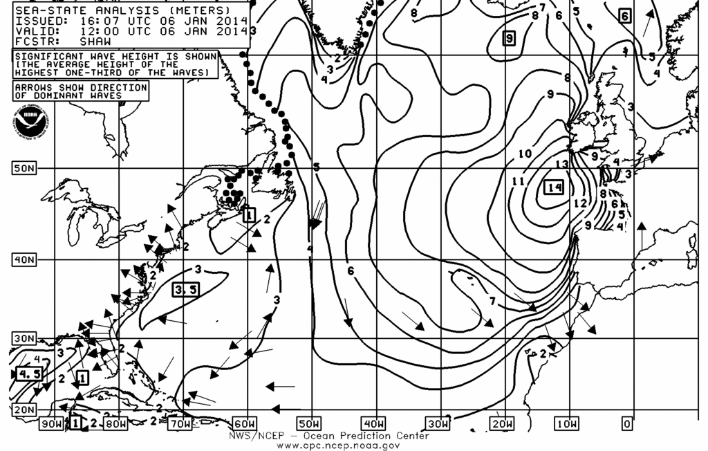 Atl.seaanal.12.2014010616